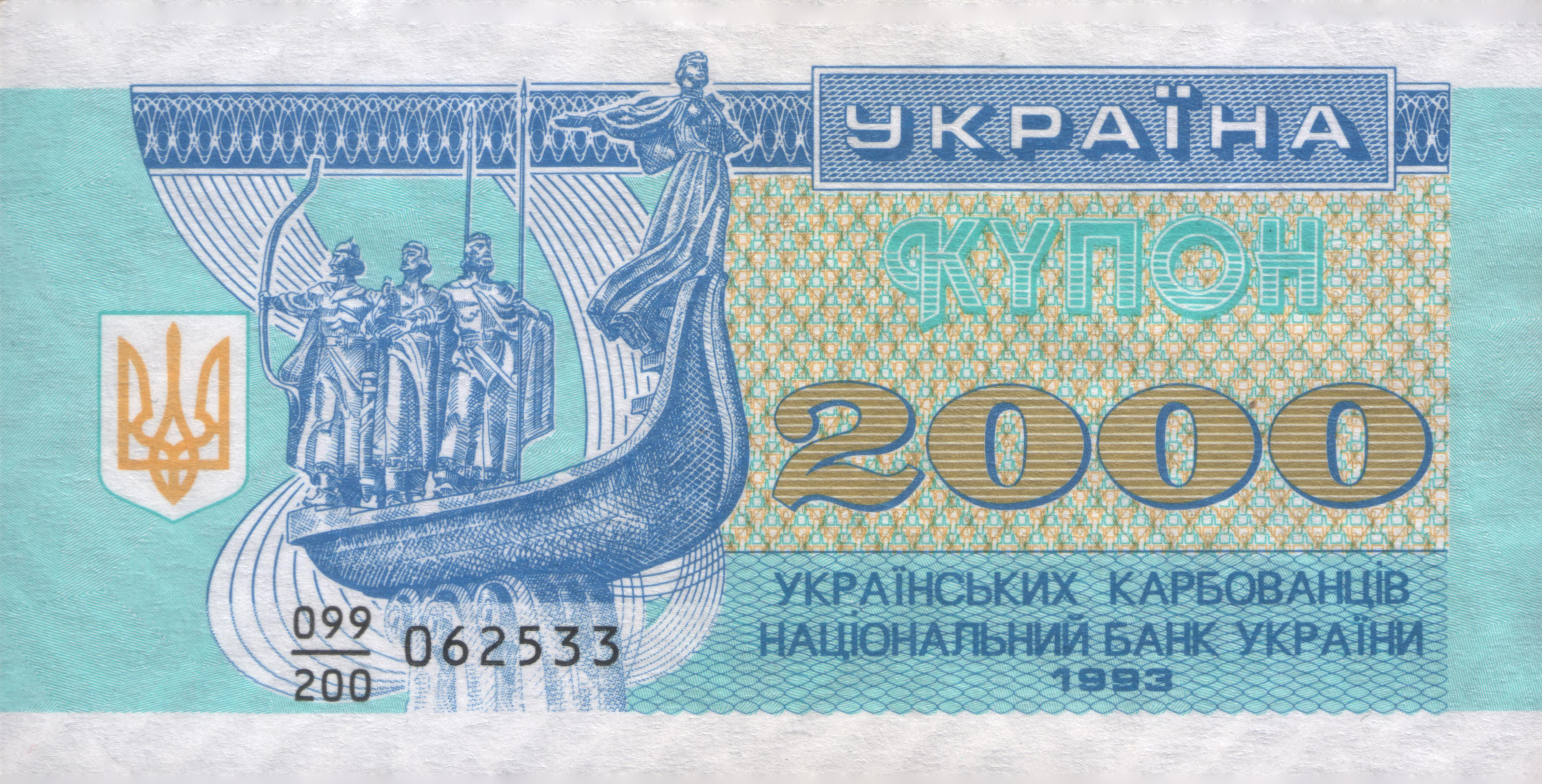 2000 karbovanets (1993)